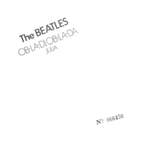 Cover of The Beatles single released in 1976 that makes it similar to White Album.